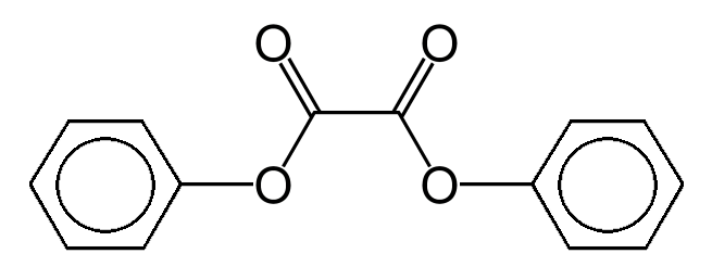 made from Image:Phenol chemical structure.png and Image:Acetic acid structures4.png